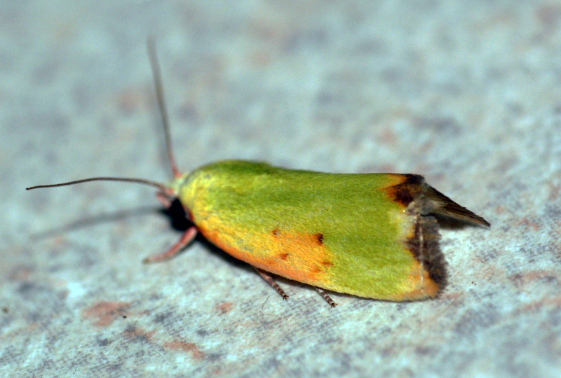 From my trip to Thailand - May 28th - 4th June 2011, most moths were found at the various temples which had metal hallide bulbs fitted to them. The ones labelled 'Hang Dong' came to my 22w Actinic light. Please feel free to help aid identification or correct my proposed identifications.